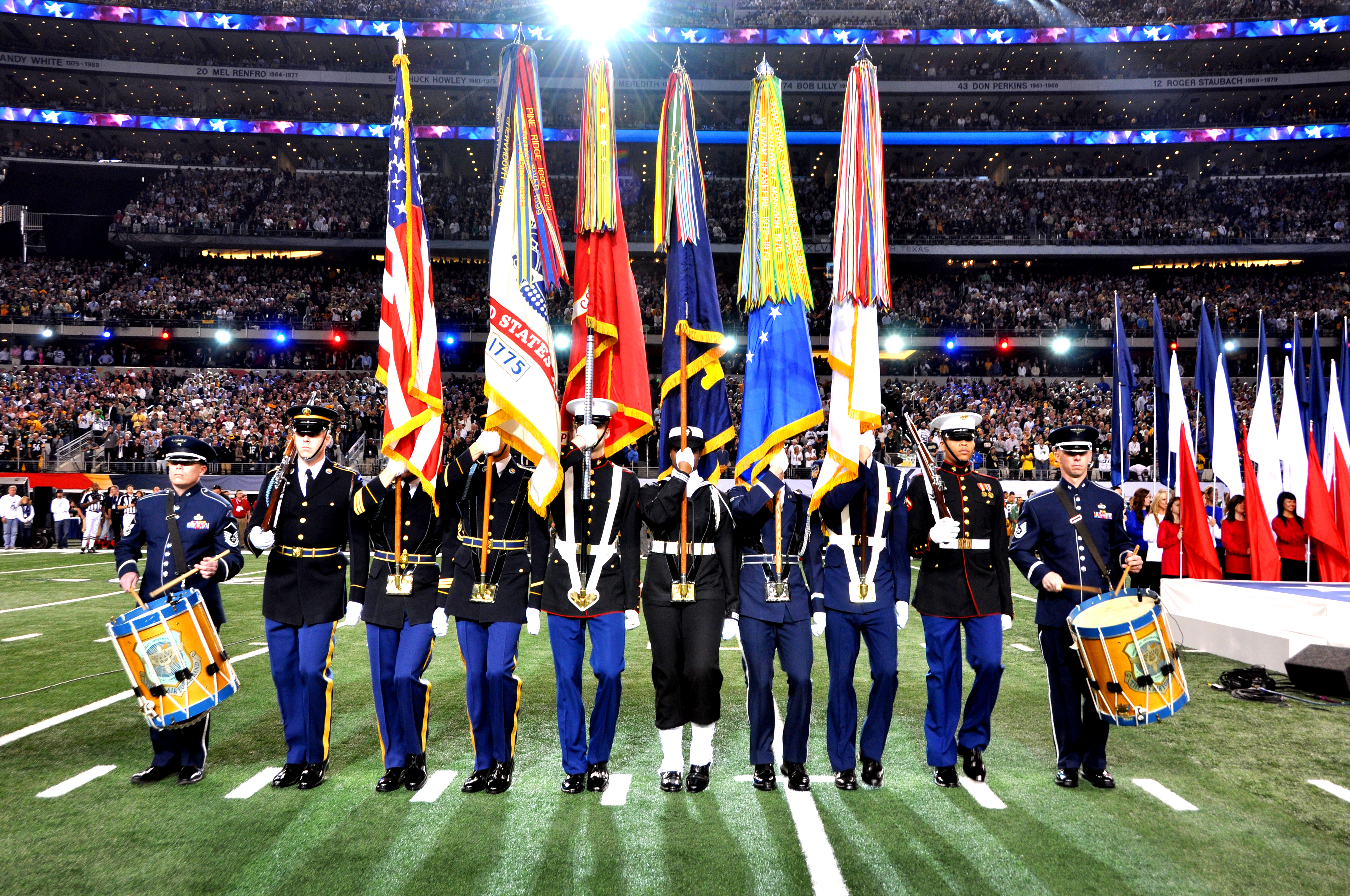 Members of the Armed Forces Color Guard and drummers from he U.S. Air Force Band, all based in Washington, D.C., perform during the Super Bowl XLV game at Cowboys Stadium in Arlington, Texas, Feb. 6, 2011. The Green Bay Packers defeated the Pittsburgh Steelers 31-25.